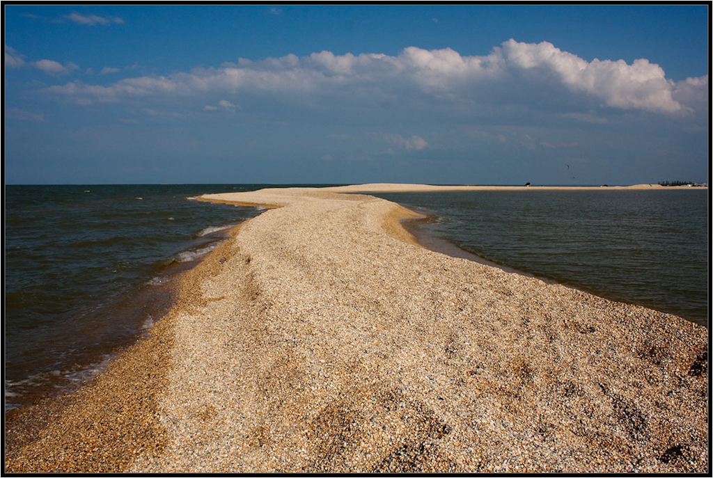 Sea of Azov